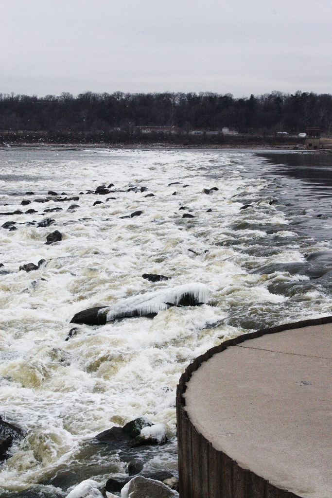 River Dam #27 on the Mississippi River, North Riverfront Park Lake, Missouri. View of the 2925 foot low-water River Dam 27, the first permanent rock-fill dam across a major river in the United States. This dam was built in 1960 to ensure adequate depths over the lower sill of the old Alton Locks that was 12.5 river miles upstream.